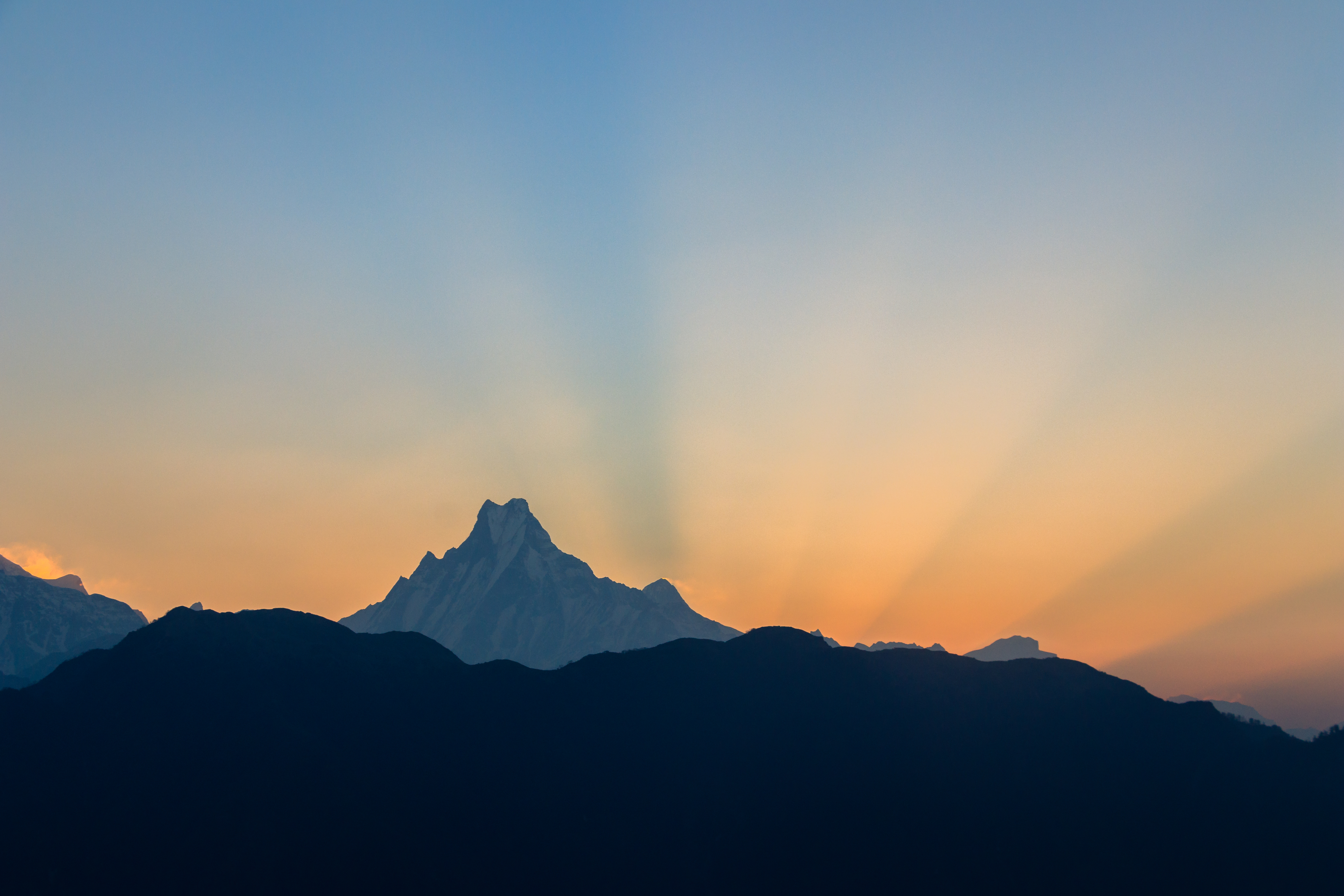 Machapuchare Himal